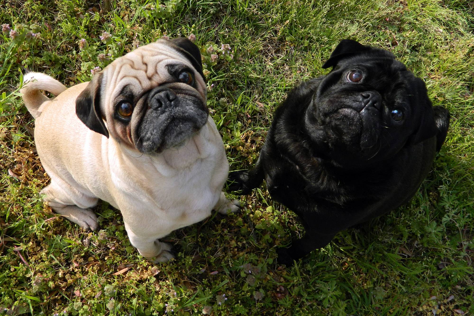 A five-year-old fawn pug and a three-year-old black pug.